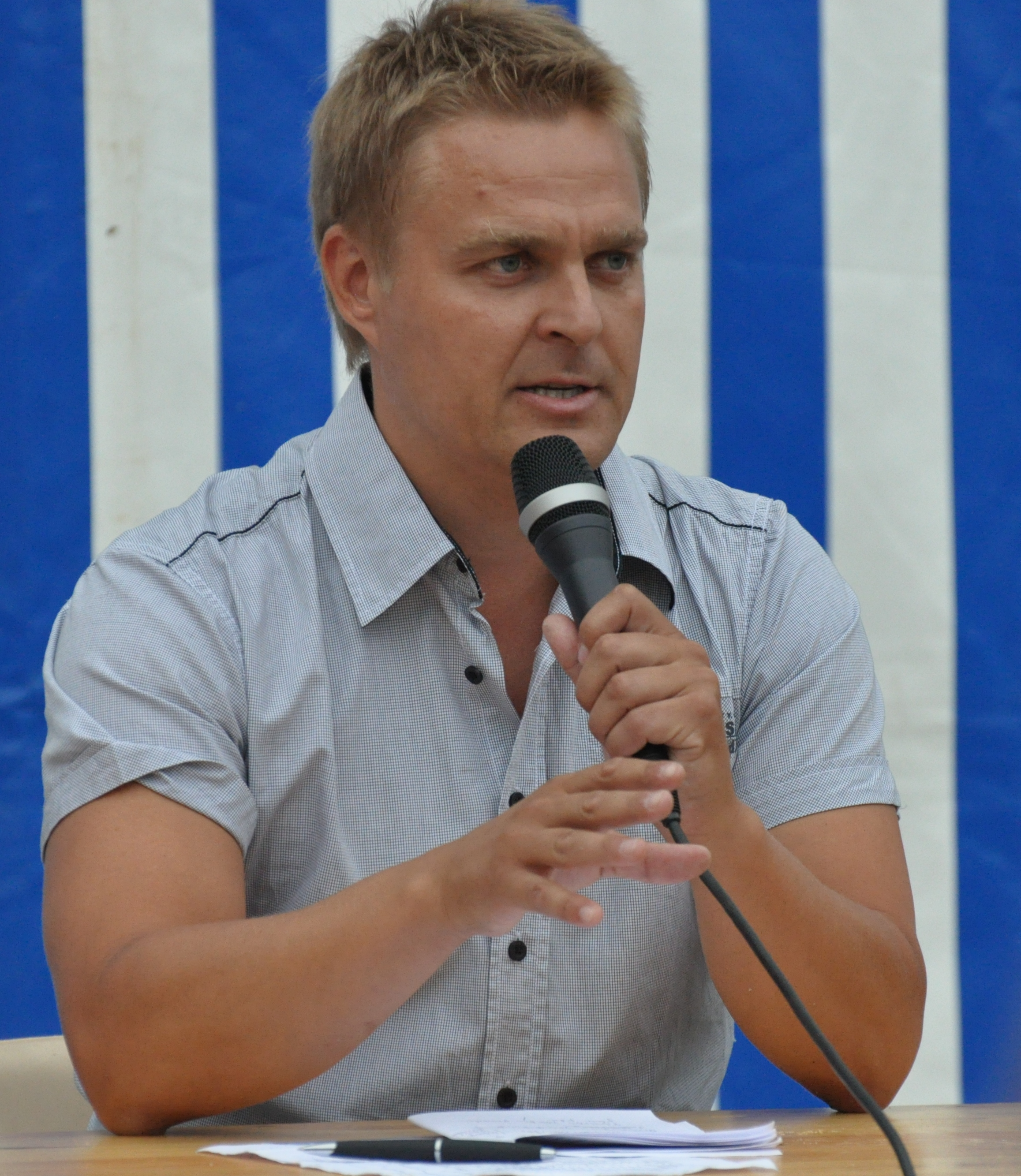 Finnish television producer and city councillor of Helsinki Osku Pajamäki at SuomiAreena 2010 in Pori.